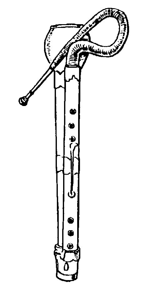 Basshorn